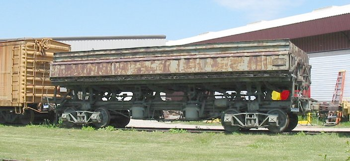 A side dump gondola at the National Railroad Museum in Green Bay, Wisconsin, United States